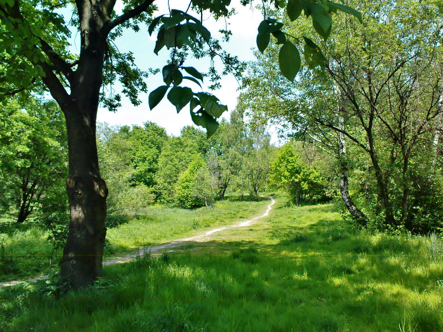 Krakow, New Bieżanów estate - park near the bus station at Alexandra Street